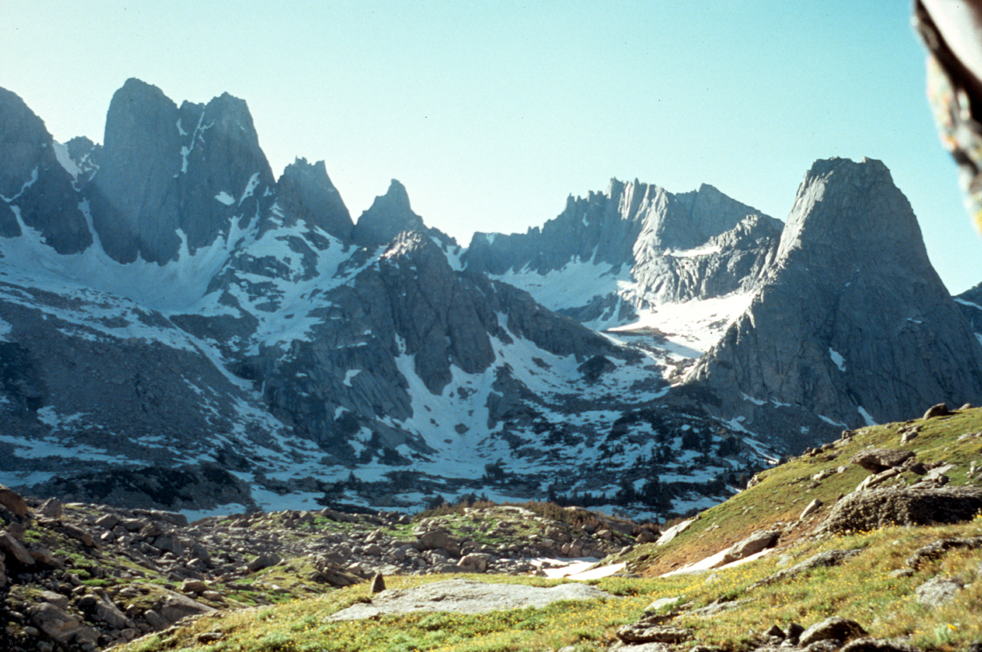 Cirque of the Towers in Shoshone National Forest, Wyoming, United States